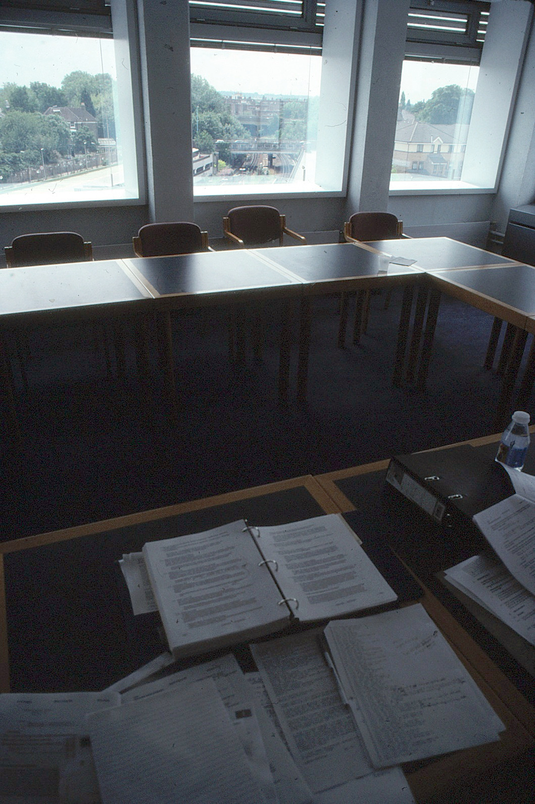 During the first day of the ISO/IEC JTC1/SC22/WG21 C++ Standards Committee meeting at the British Standards Institution in Chiswick, London in July 1997, a committee member studies committee papers concerning various language and library proposals and makes notes. The tracks of Gunnersbury station can be seen outside the window.